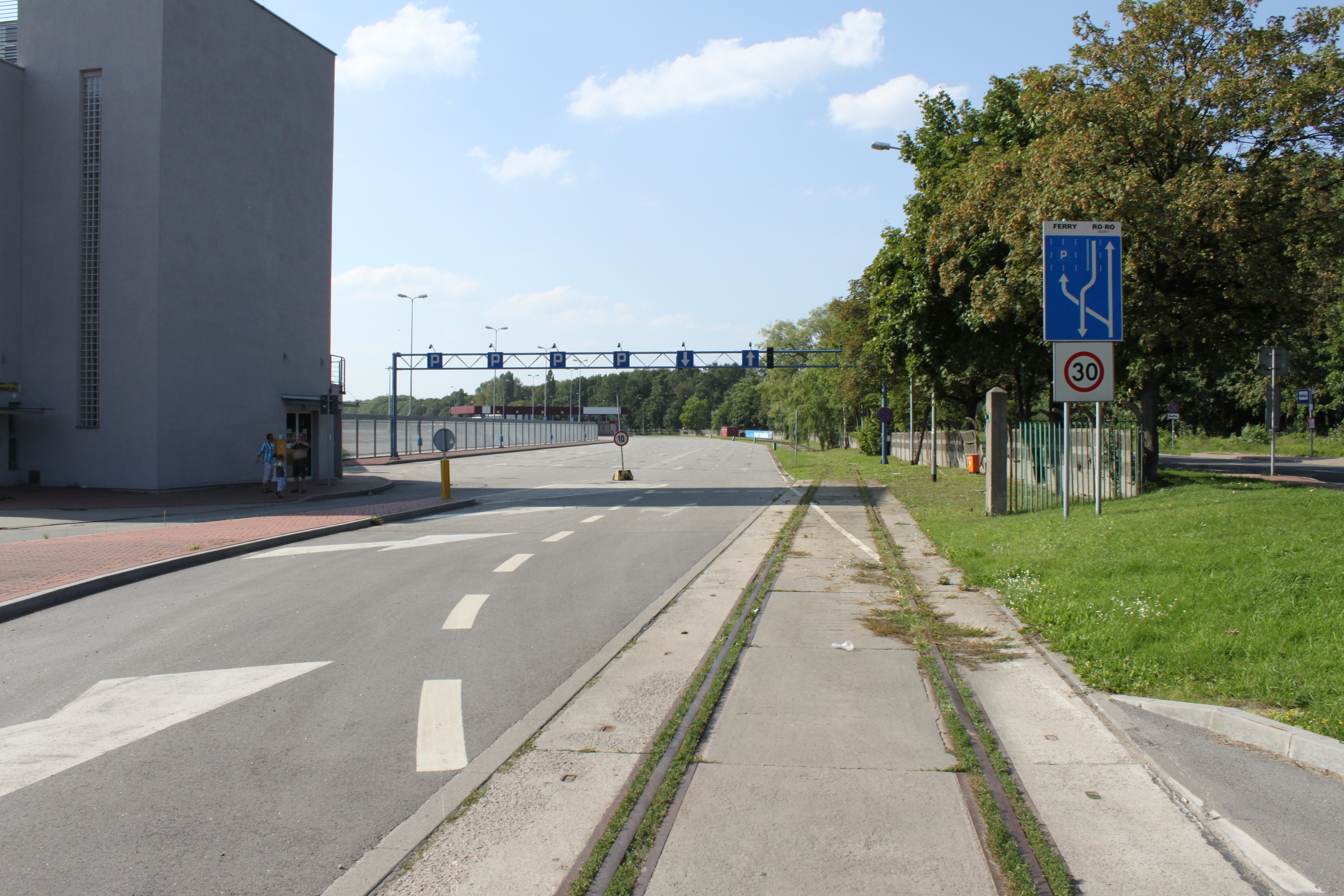 Railway track to ferry terminal on Westerplatte, Gdańsk, Poland.